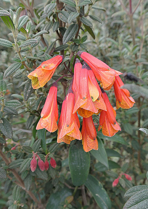 Found in the highlands from Costa Rica to northern Peru. Photo from northeast of Chimborazo Mountain, Ecuador. In context at